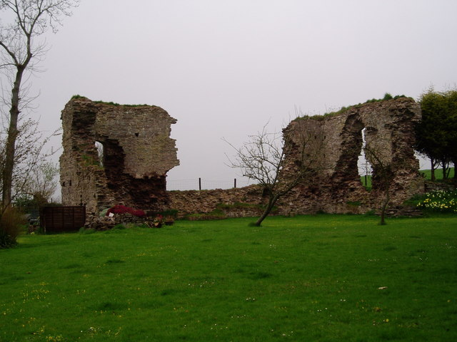 Llanddew Castle The remains of the Bishop's Castle at Llanddew, near Brecon. The ruins are part of the hall of the castle, and are situated in the gardens of the Rectory.